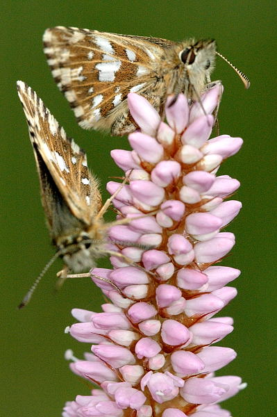 Picture taken in Commanster, Belgian High Ardennes . Species: Pyrgus malvae